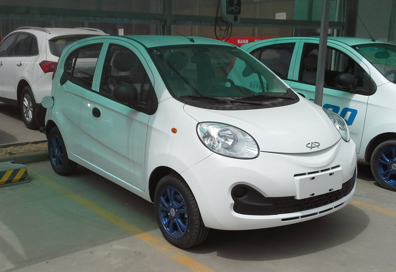 Chery eQ photographed in Xi'an, Shaanxi province, China.